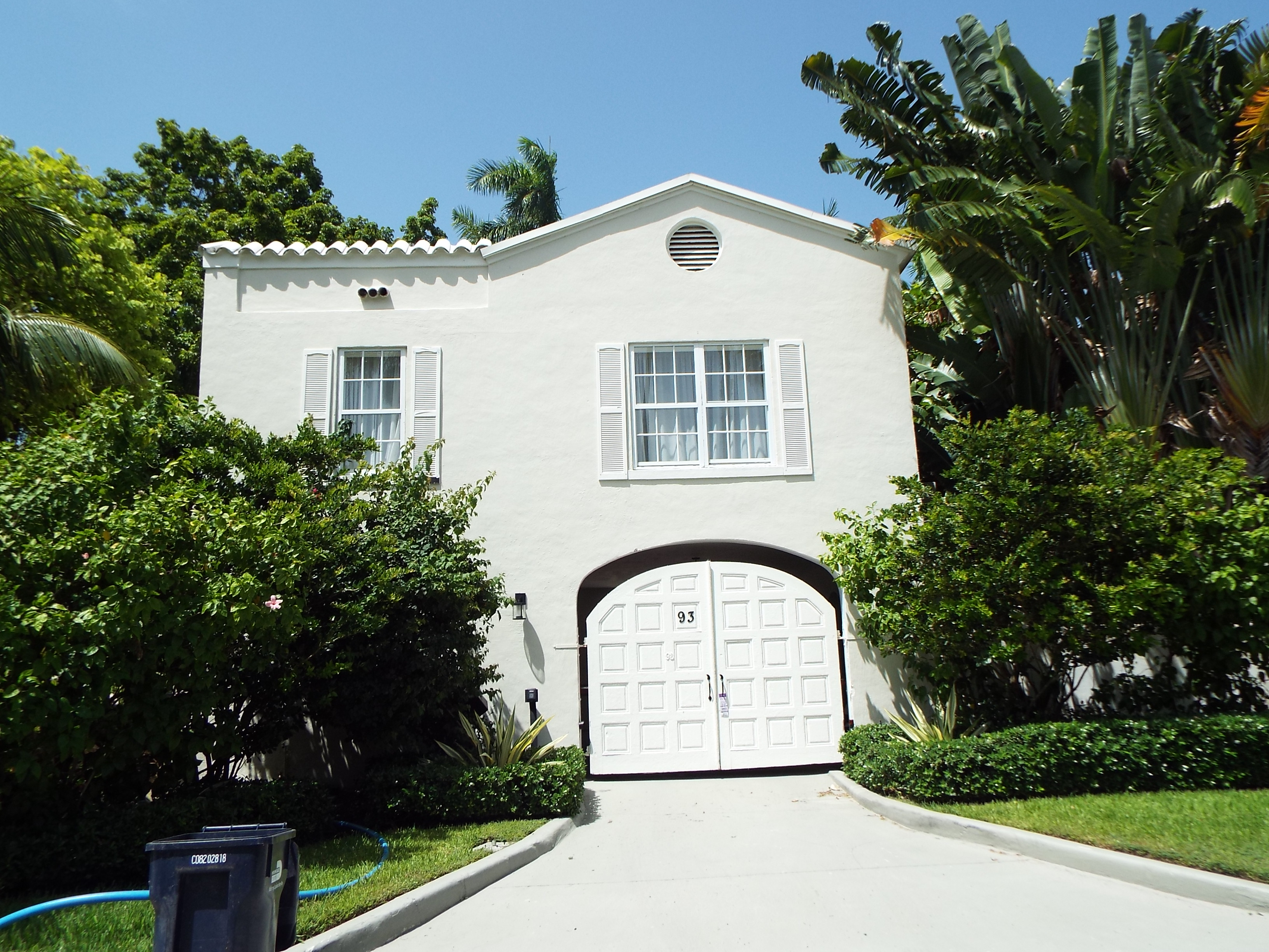 The entrance of the Al Capone's in Palm Island, Florida. The mansion was built in 1922 and is located in 93 Palm Ave. Capone brought the estate in 1928 and lived there until his death in 1947. Capone plotted the Chicago's infamous February 14, 1929, St. Valentine’s Day Massacre while living in the mansion.